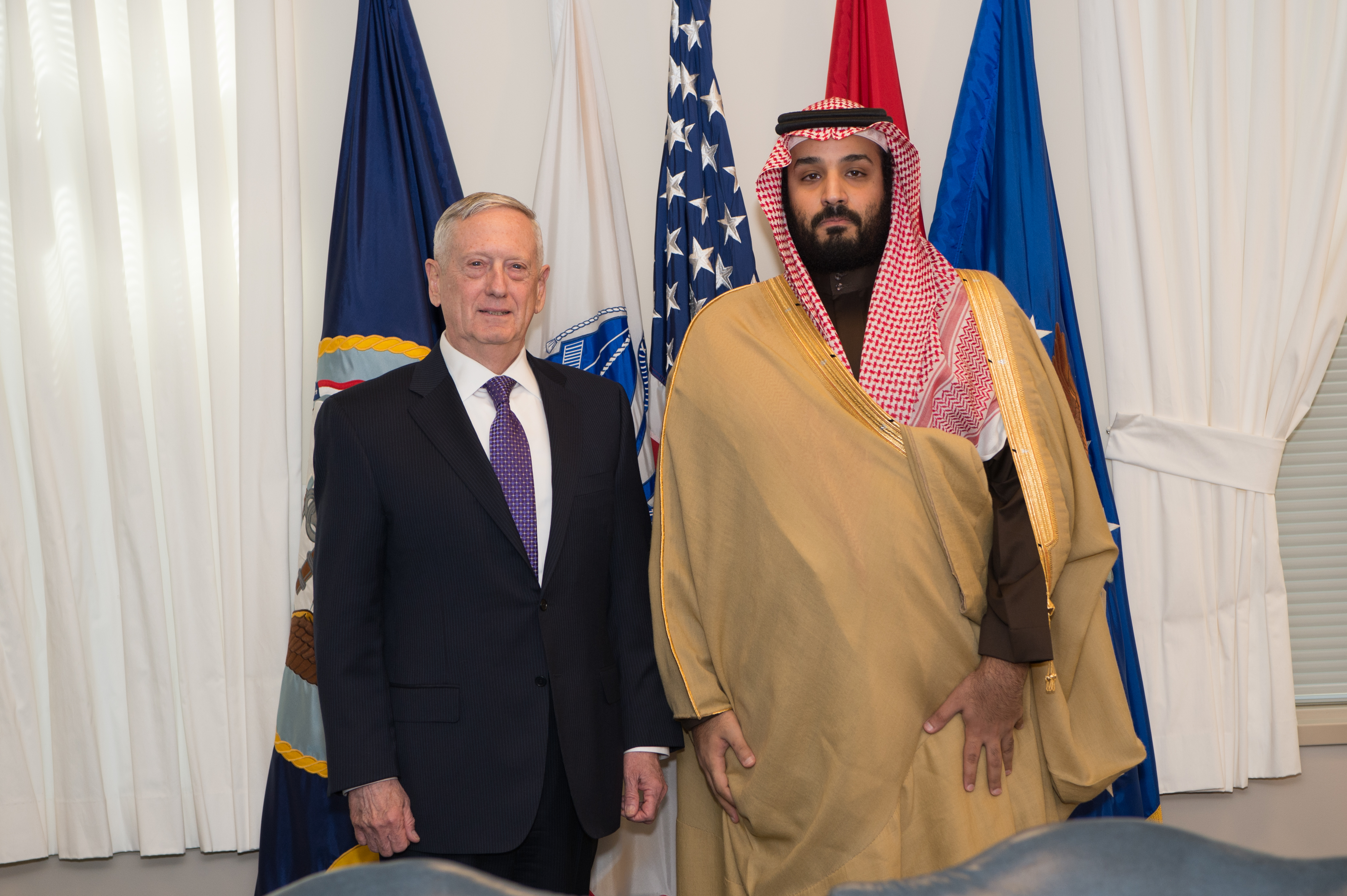 Defense Secretary Jim Mattis stands with Deputy Crown Price of Saudi Arabia Mohammad bin Salman Al Saud before a bi-lateral meeting held at the Pentagon in Washington, D.C., Mar. 16, 2017. (DOD photo by Sgt. Amber I. Smith)